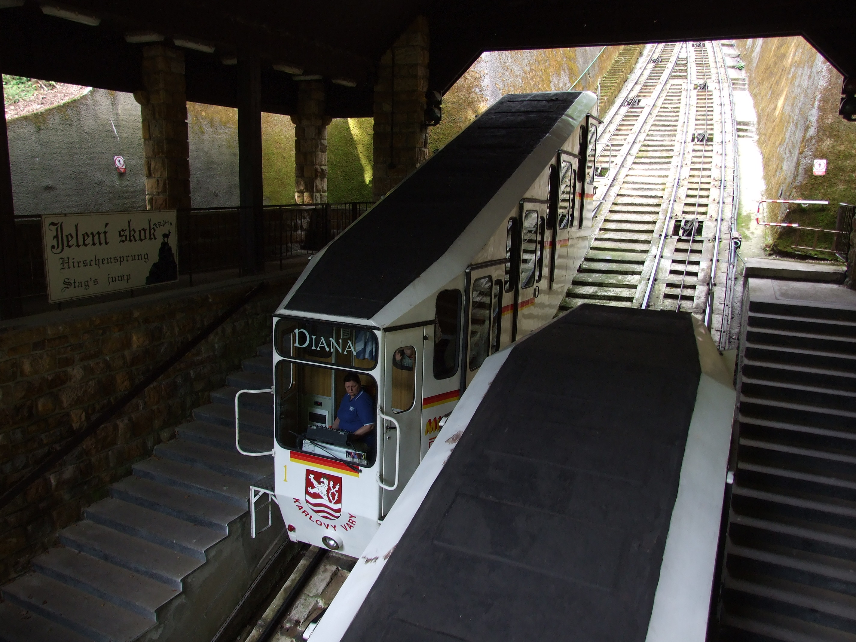 Diana funicular in Karlovy Varyhelp